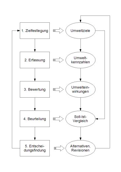 Günther, Edeltraud und Sturm, Anke und Thomas, Paola und Uhr, Wolfgang; Environmental Performance Measurement als Instrument für nachhaltiges Wirtschaften; WiWi-Online.de, Hamburg, Deutschland, 2005; online im Internet unter Stand 07.01.2009